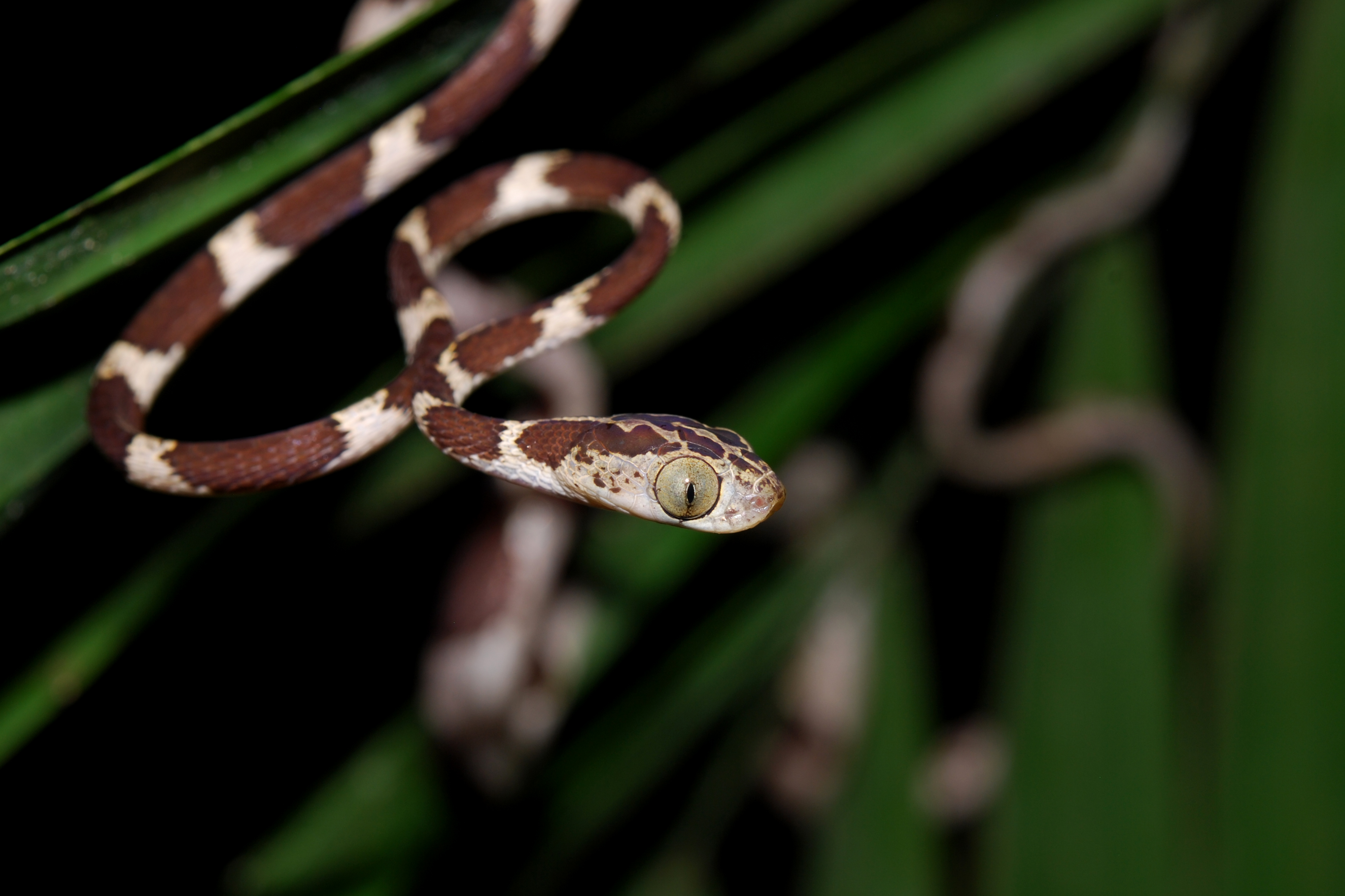 A Mapepire Corde Violon, also known as the Blunt Head Vine Snake (Imantodes cenchoa), at the Yarina Biological Reserve, Yasuni National Park, Ecuador.